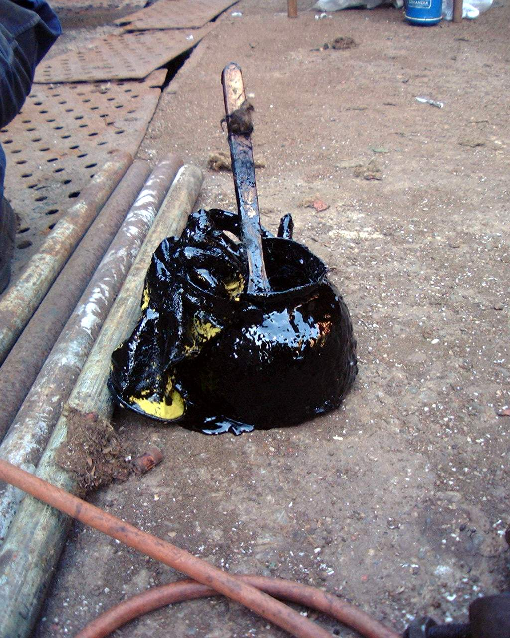 A bucket of pitch in the dry docks of Beckholmen, Stockholm.